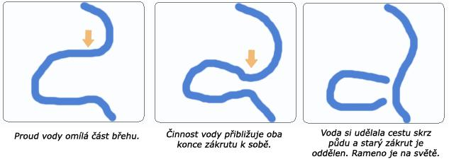 river meander dynamics